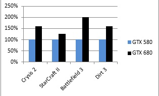 Melhora eficiencia energetica